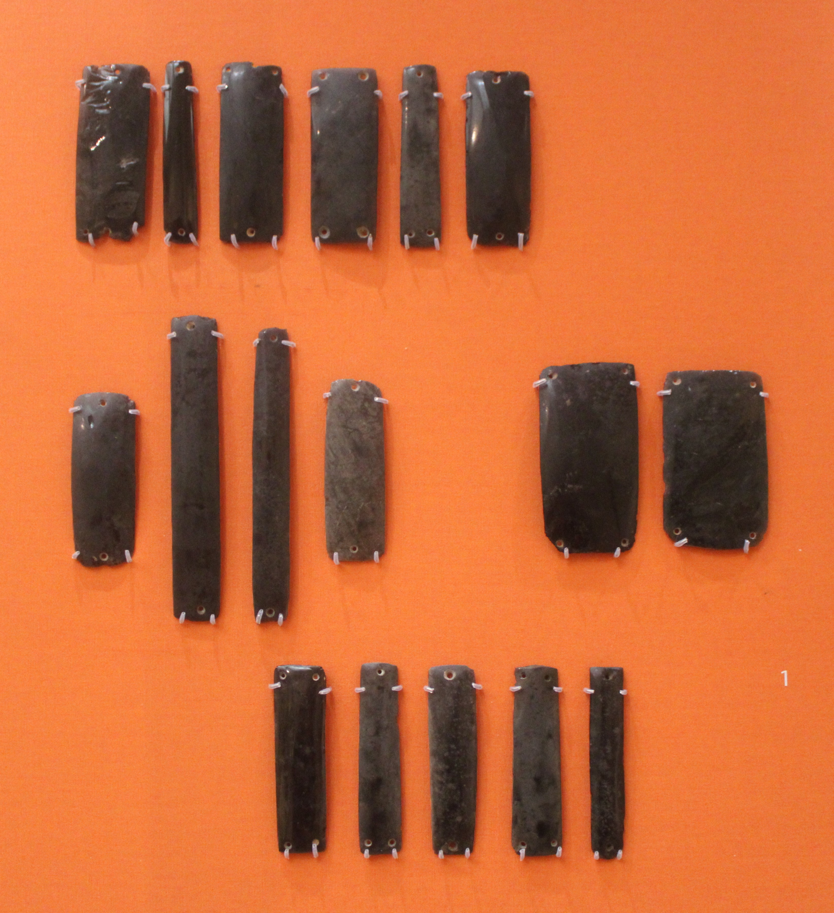 Obsidian plates, used as ornaments (sewn on clothes? or joined on necklaces, belts?). From Tell Arpachiyah, Syria, 6000-5000 BC. J.-C, Halaf period. BM 1934.0210.500-516.